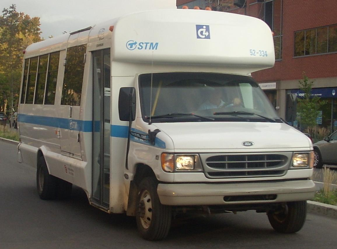 1997-2002 Ford E-Series photographed in Montreal, Quebec, Canada.